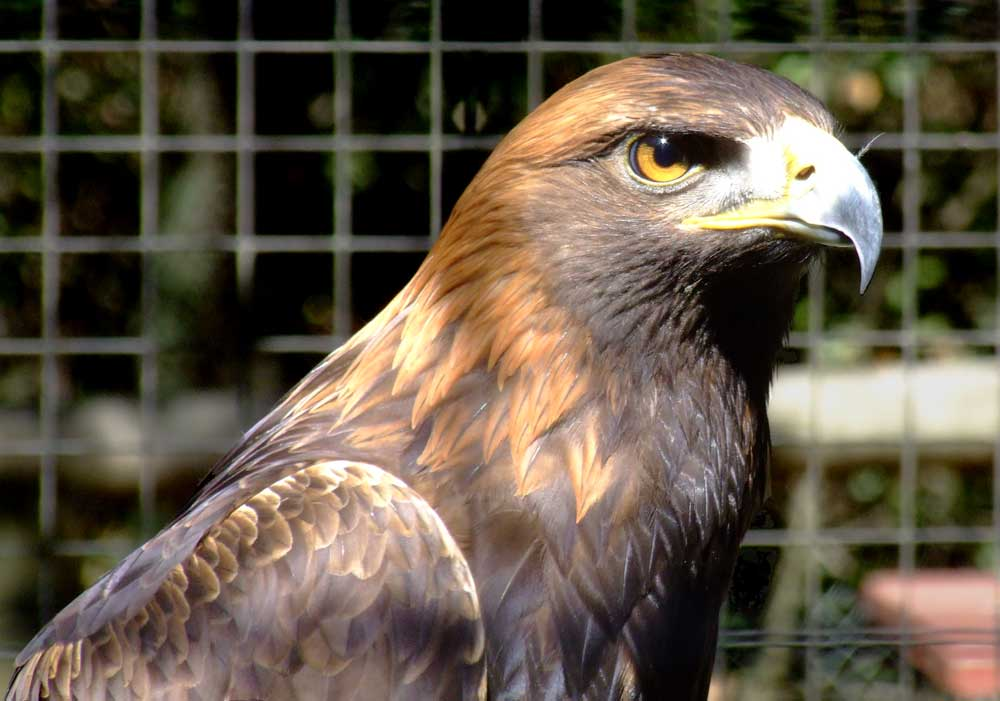 Eagle, Sulphur Creek, Castro Valley